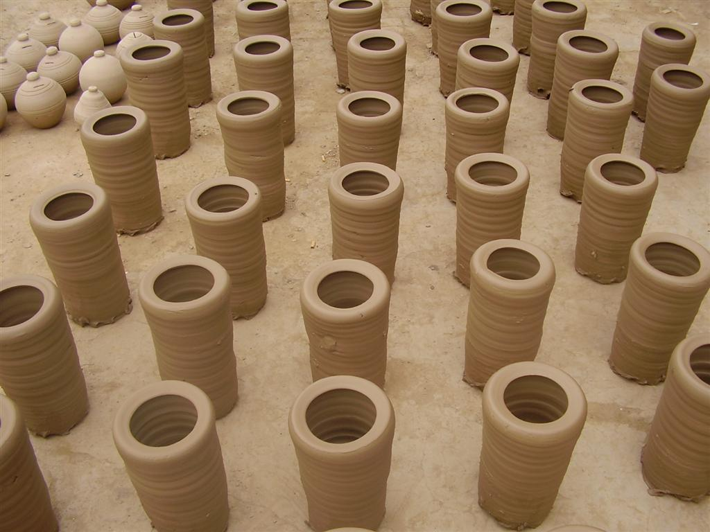 Clay Vasses